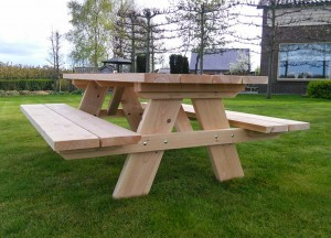 Douglas picnictable